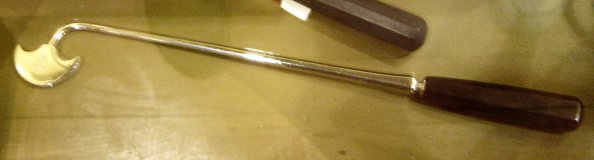 A cauter Musée d’histoire de la médecine Native nameMusée d'histoire de la médecineParent institutionUniversité Paris VLocation12 rue de l'École-de-Médecine75006 Paris FranceCoordinates48° 51′ 04″ N, 2° 20′ 28″ E Established1921Web page control : Q3329671 ISNI: 0000 0004 5373 6783 Museofile: M9023 institution QS:P195,Q3329671